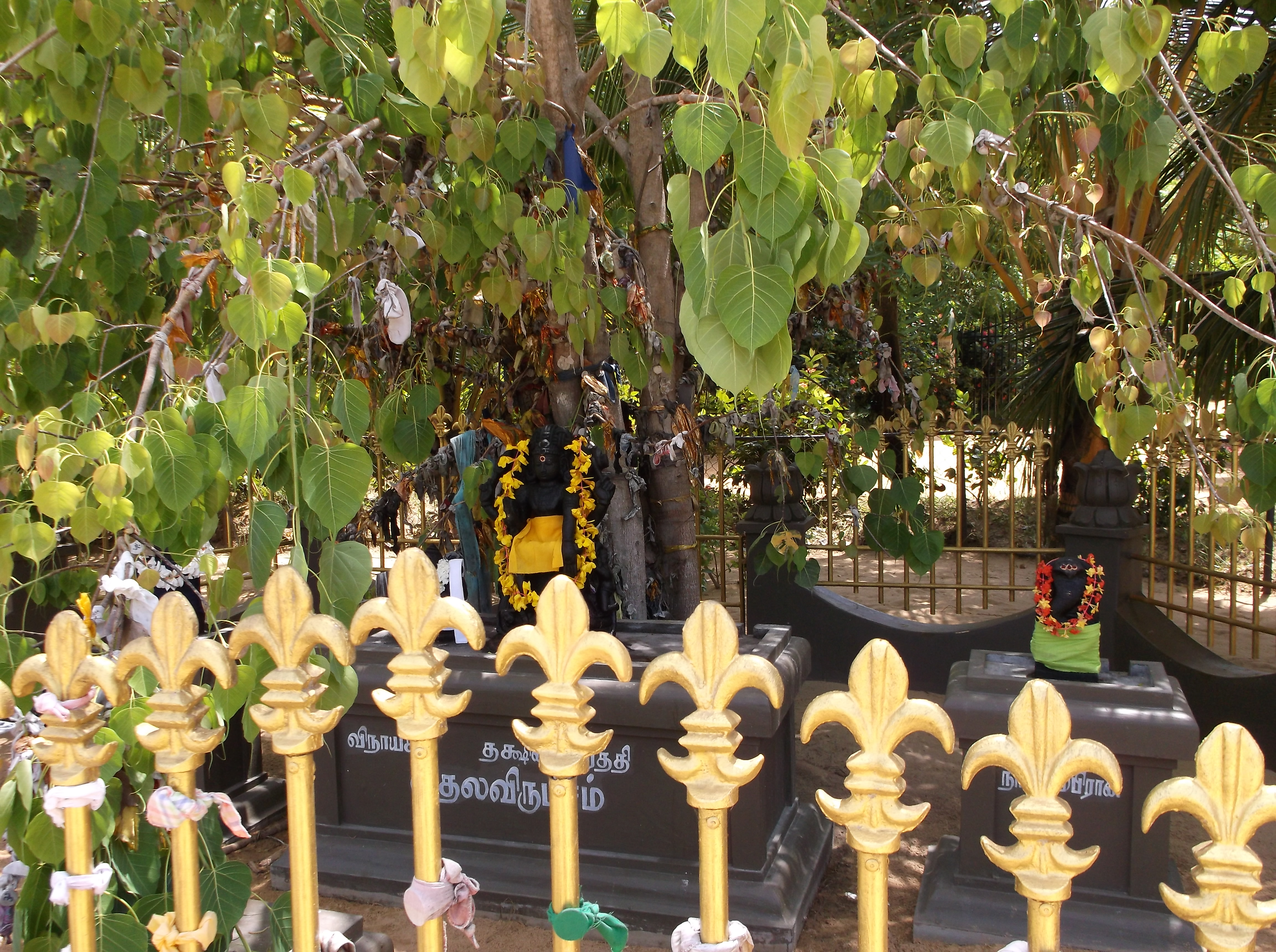 Mailampaaveli meenadshi Temple